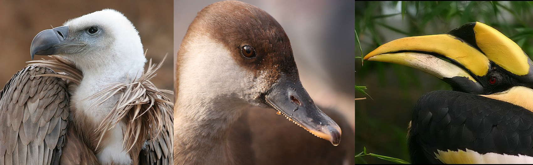 File:Eagle_beak_sideview_A.jpg